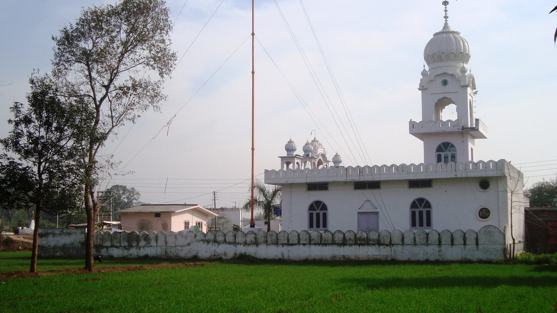 Gurudwara Shri Hargobindsar Sahib, Village Dadhi, Distt. Roopnagar (Ropar), Punjab, INDIA